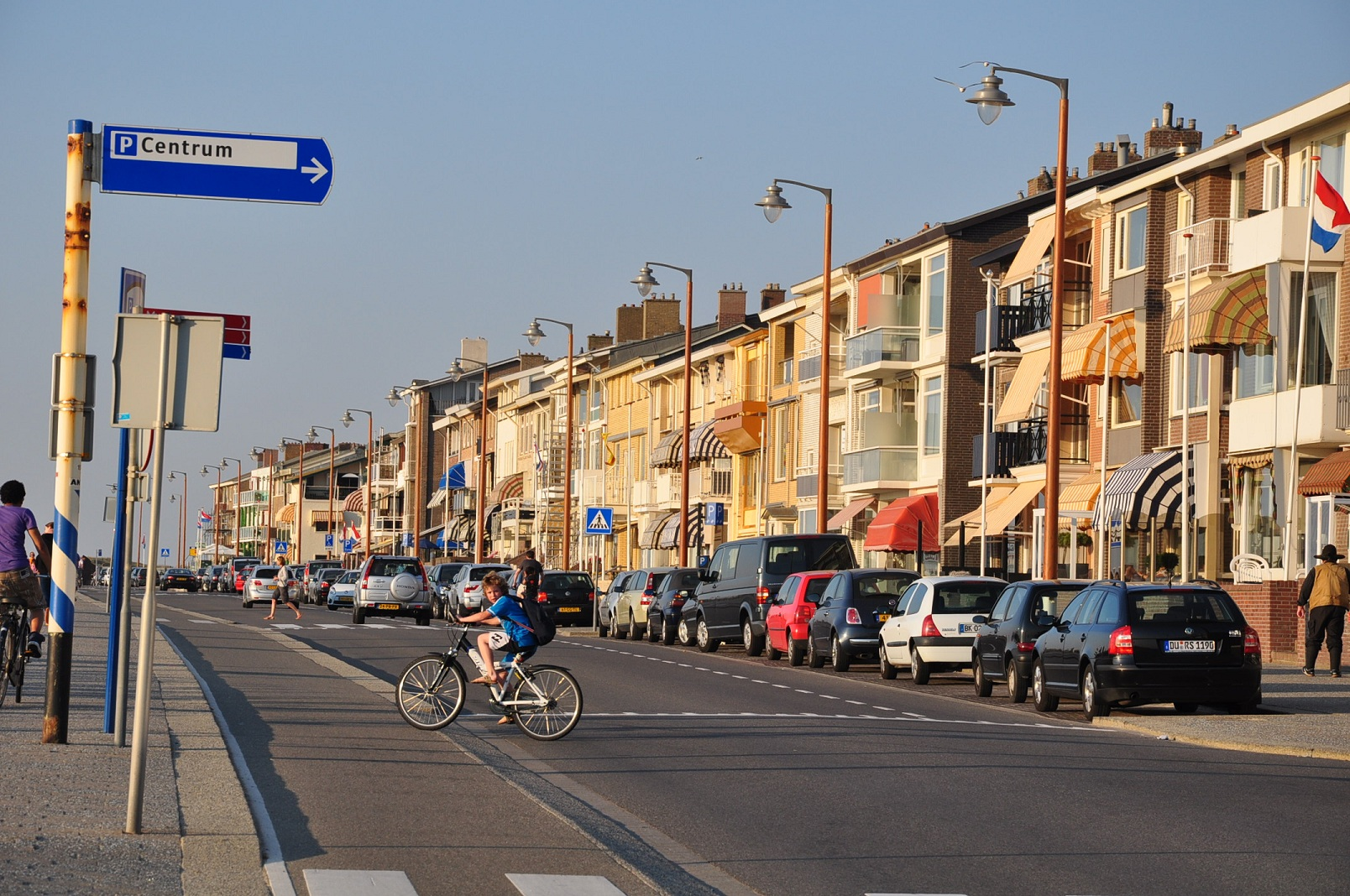 Northern part of the (North Sea) Boulevard in Katwijk, Netherlands.